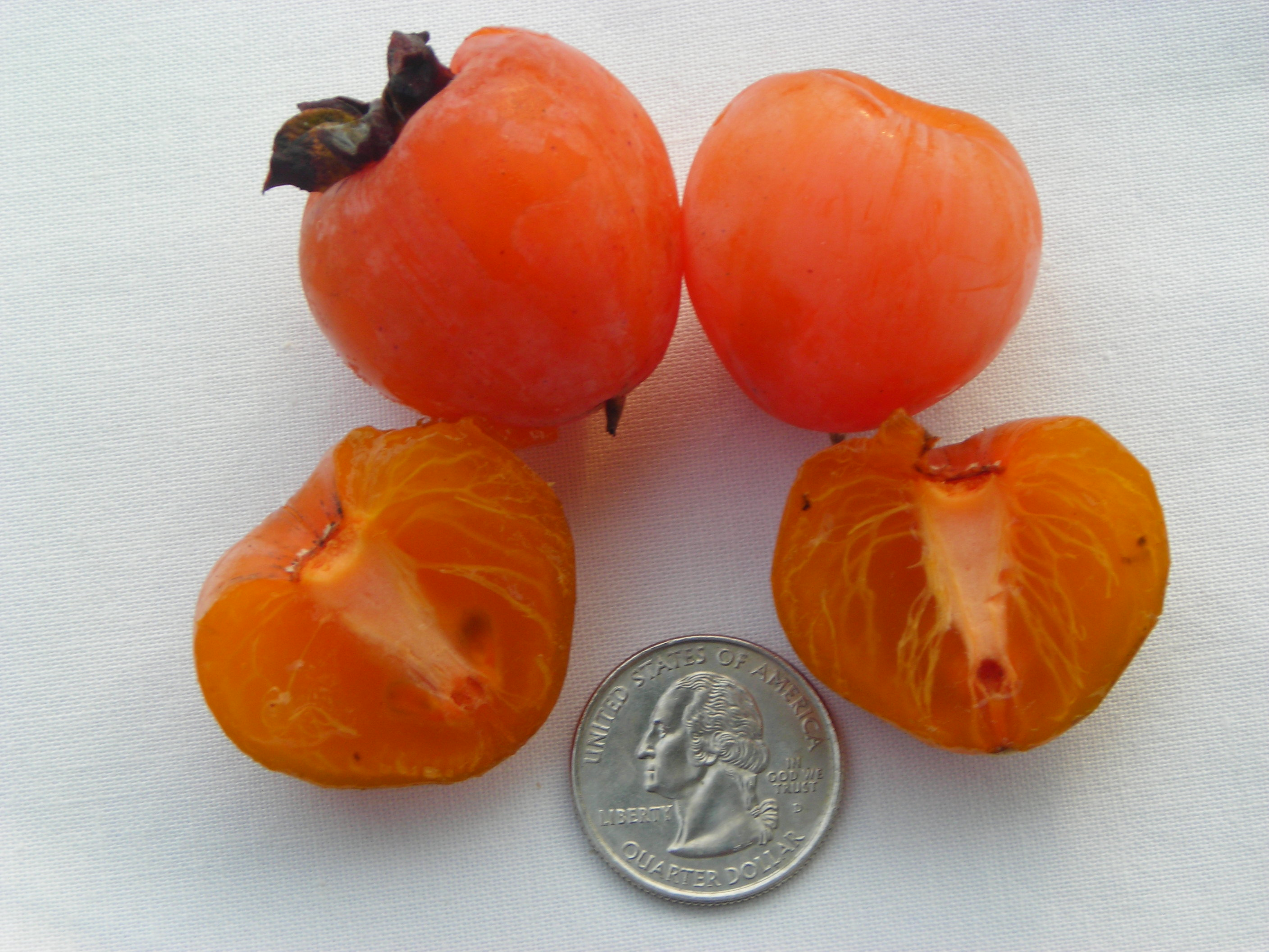 Meyer seedless persimmon, D. Virginiana, from Seymour, IN